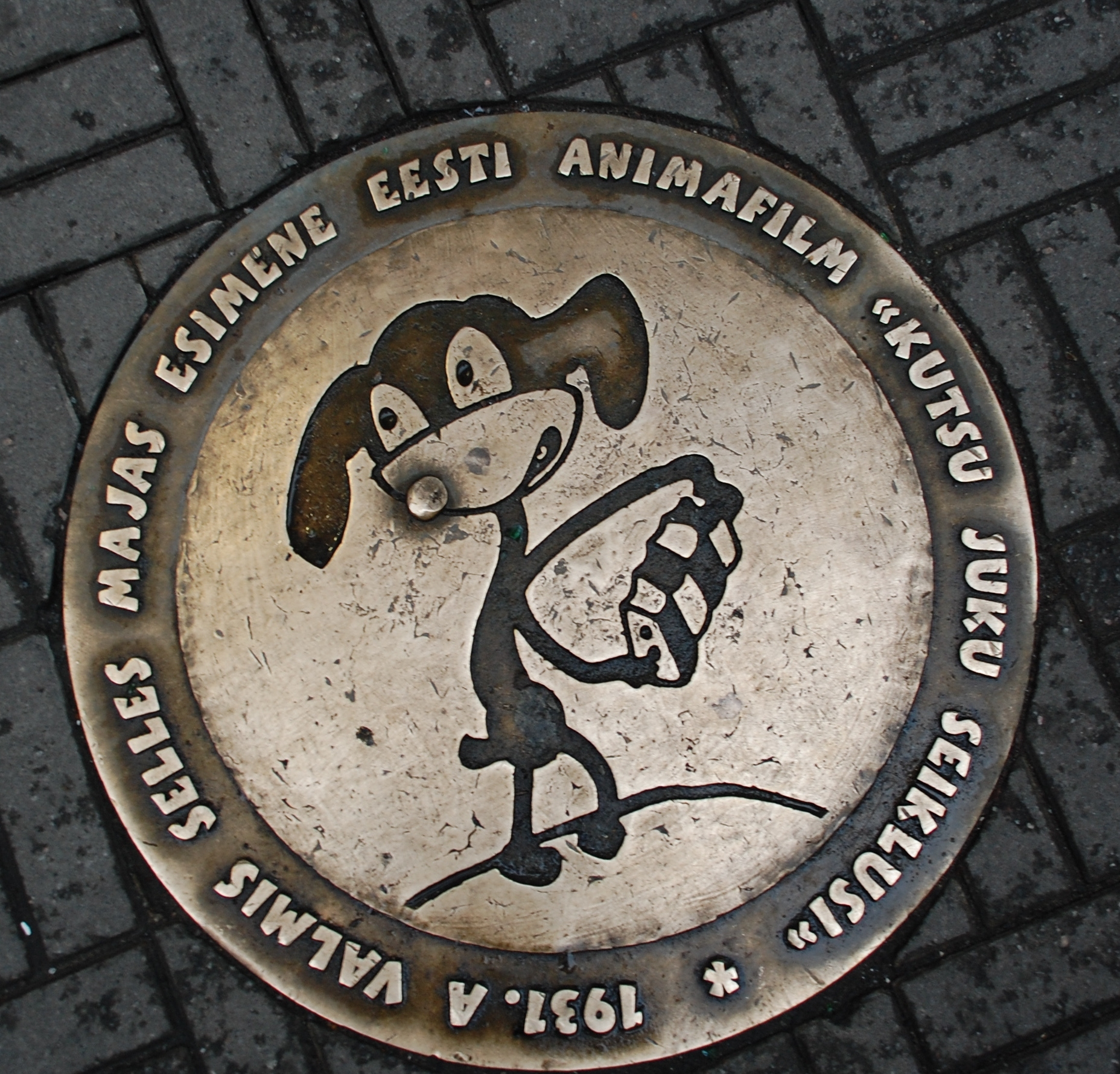 Plaque commemorating "Adventures of Juku the Dog" (Kutsu-Juku seiklusi)